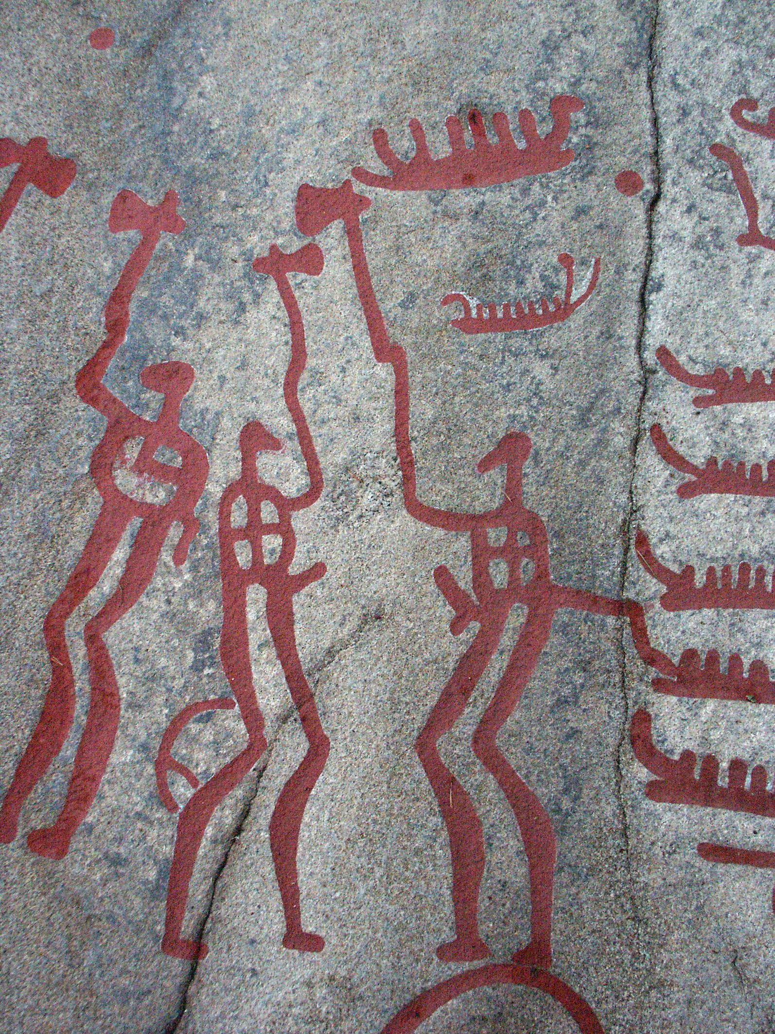 Rock carving area from the bronze age in the parish of Tanum, Bohuslän, a part of Sweden.